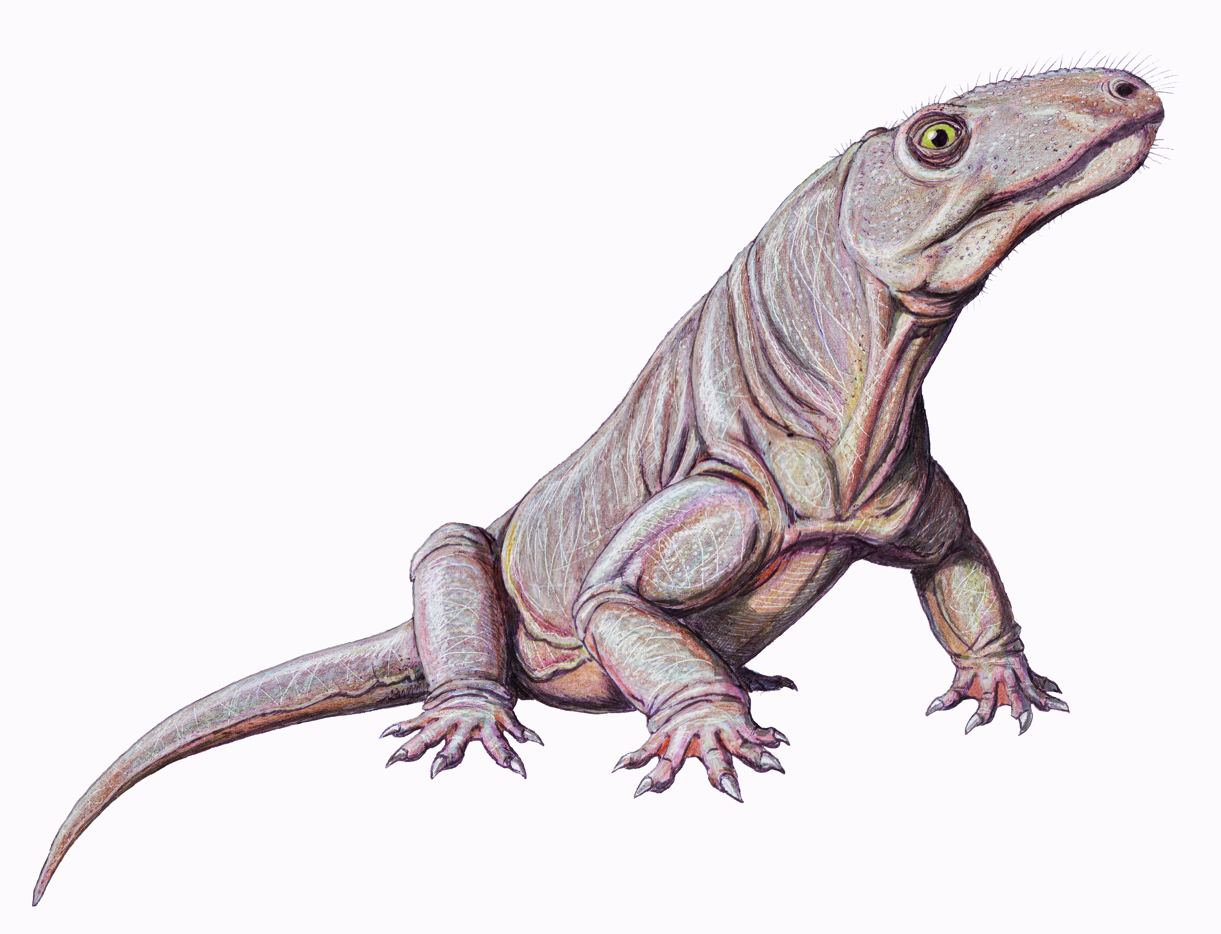 Archaeosyodon praeventor from Ocher fauna (Middle Permian of Perm region)